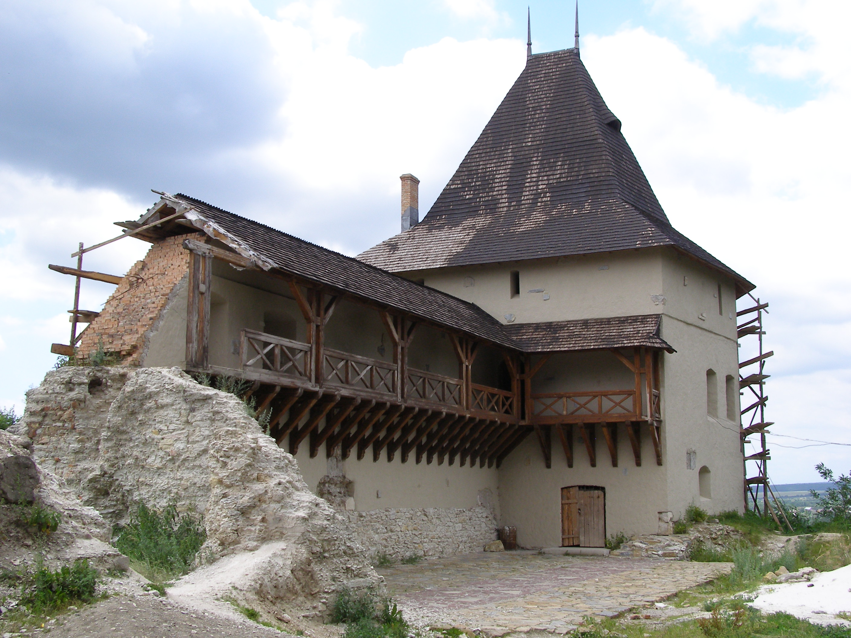 Old Castle in Halych (Galich), Ivano-Frankivsk Oblast, western Ukraine.